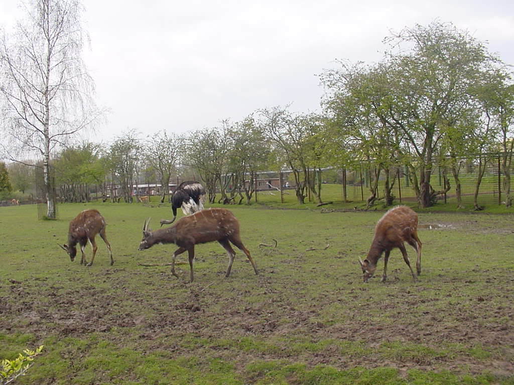 Sitatungas at Chester Zoo